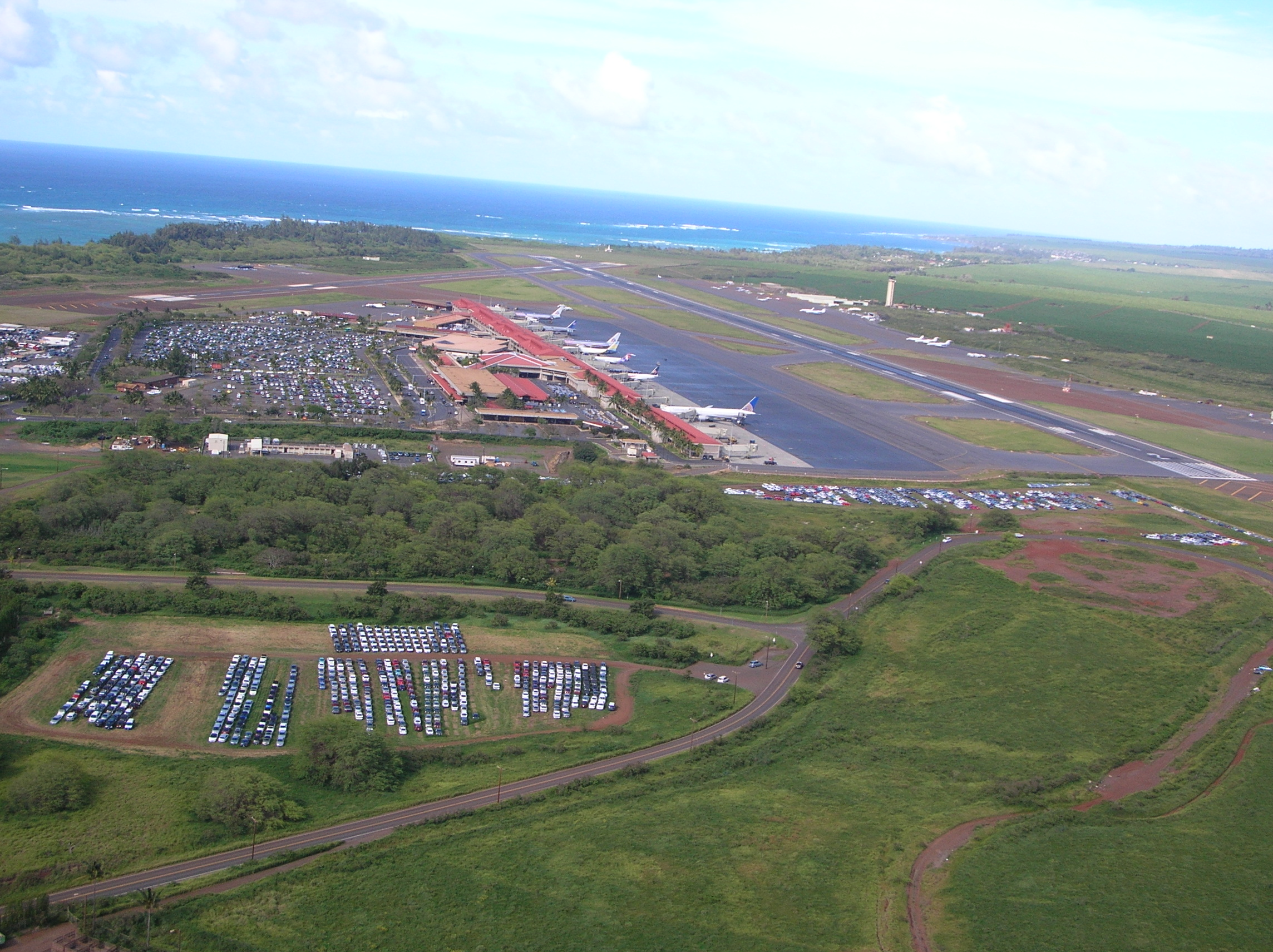 Prosopis pallida (habitat). Location: Maui, Kahului airport